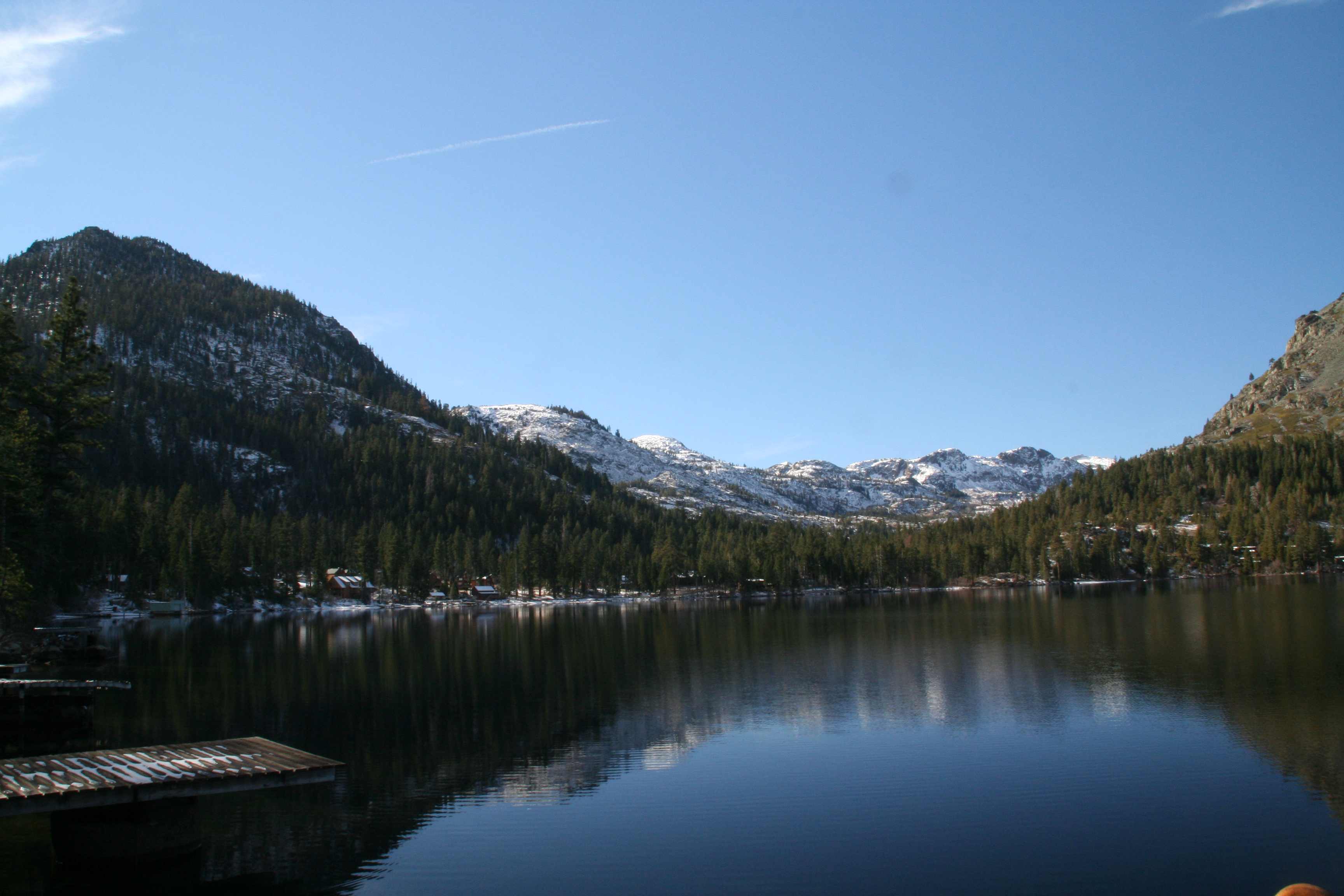 Fallen Leaf Lake viewed from Silliman dock.